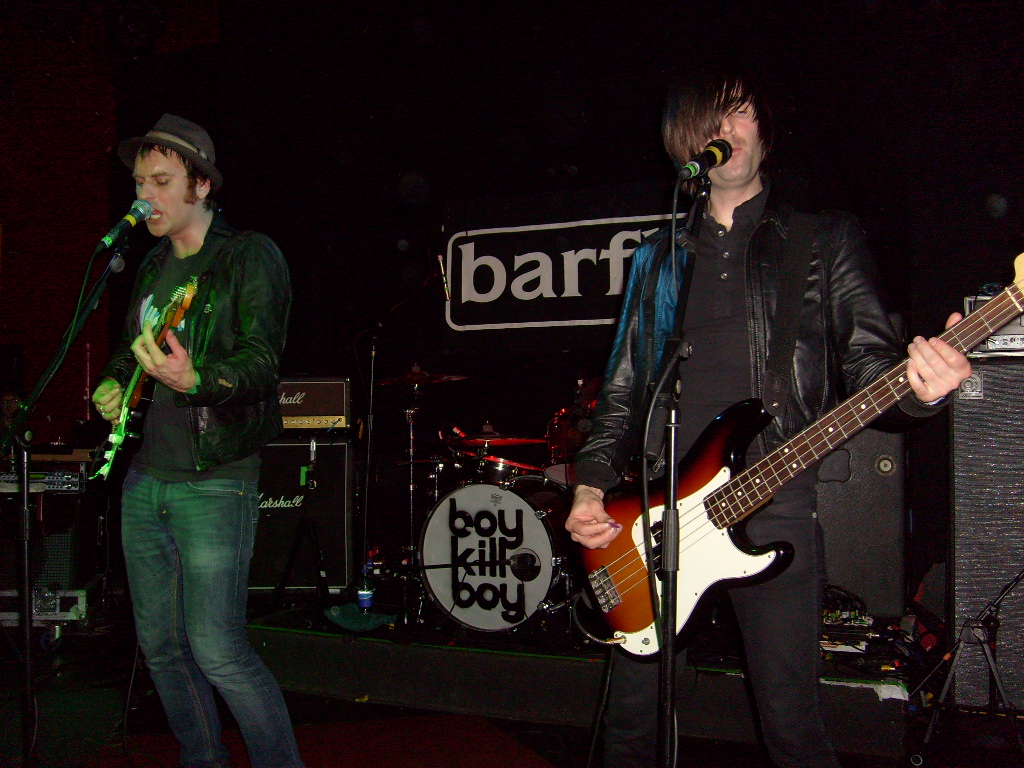 Boy Kill Boy playing live in Birmingham, 2008 The file is a photograph that was taken by myself with my own equipment, I own the copyright. Justin McKeon (talk) 16:44, 31 March 2008 (UTC) Justin McKeon